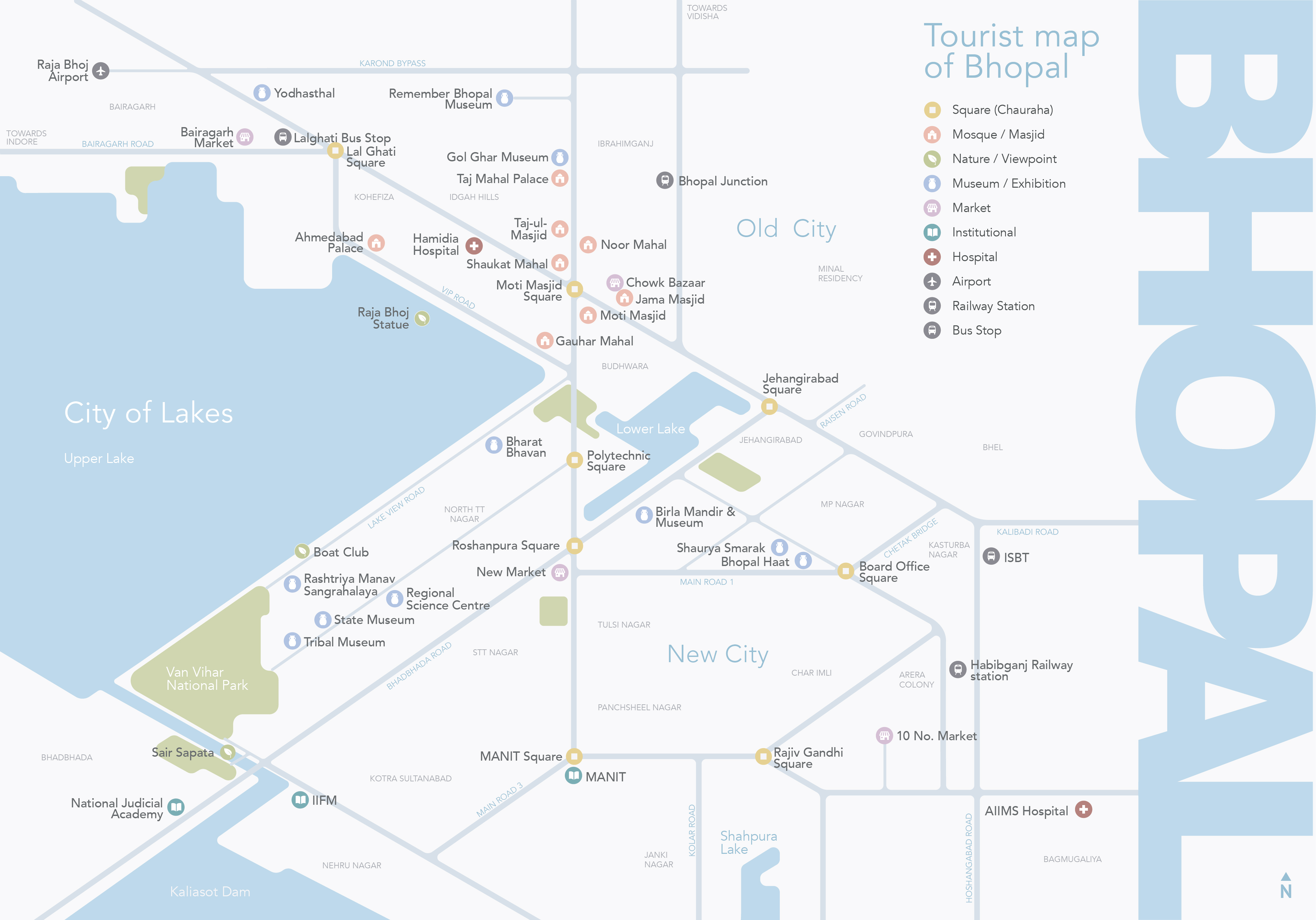 Schematic map of major tourist attractions and transportation modes in the city of Bhopal.